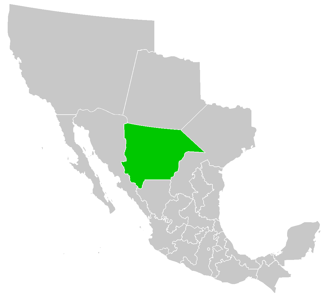 Map of the former 19th century Mexican Territory of Chihuahua.